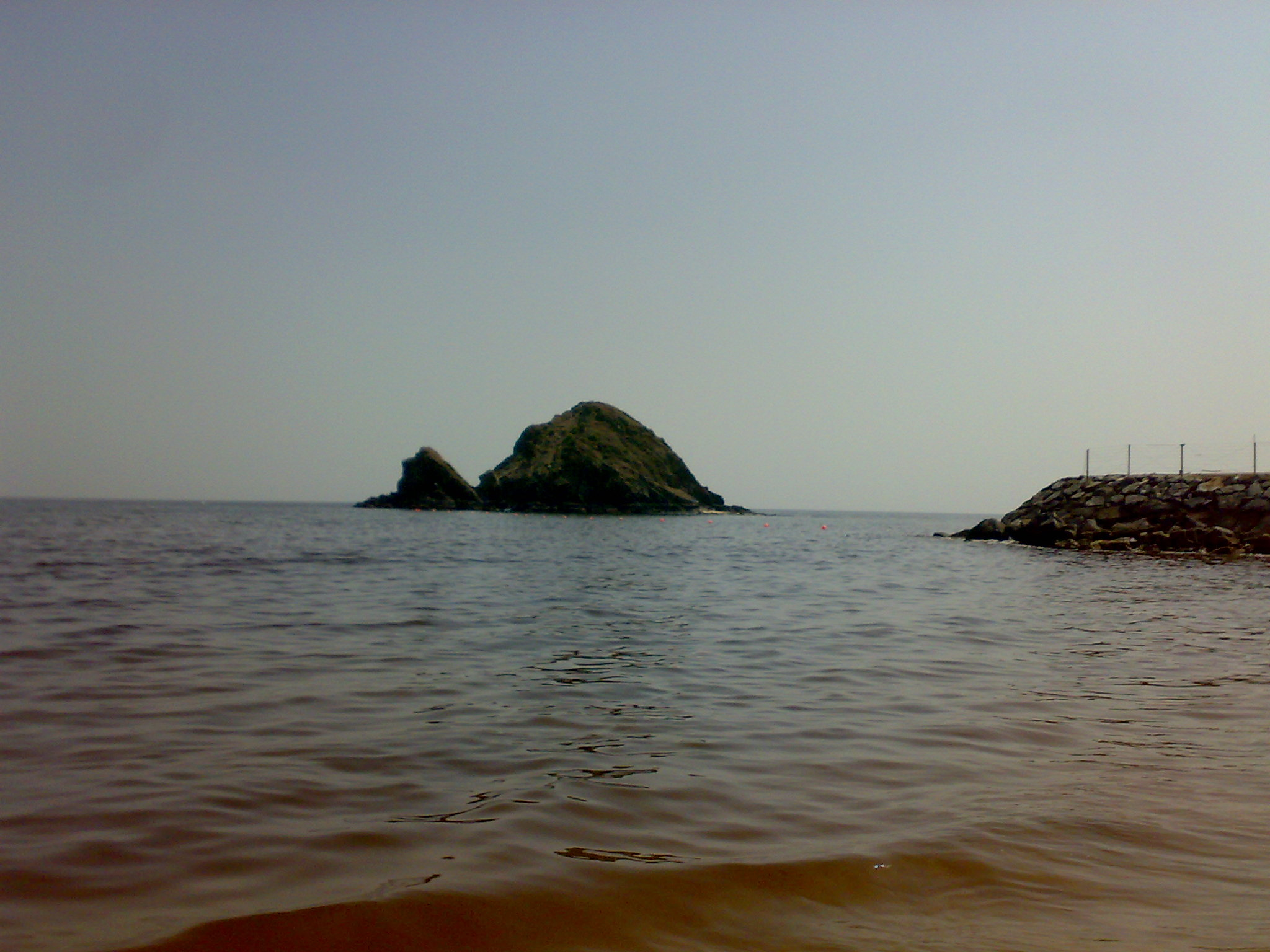 Snoopy Island off Sharm community, Dadna municipality, emirate of Fujeirah, eastern UAE.